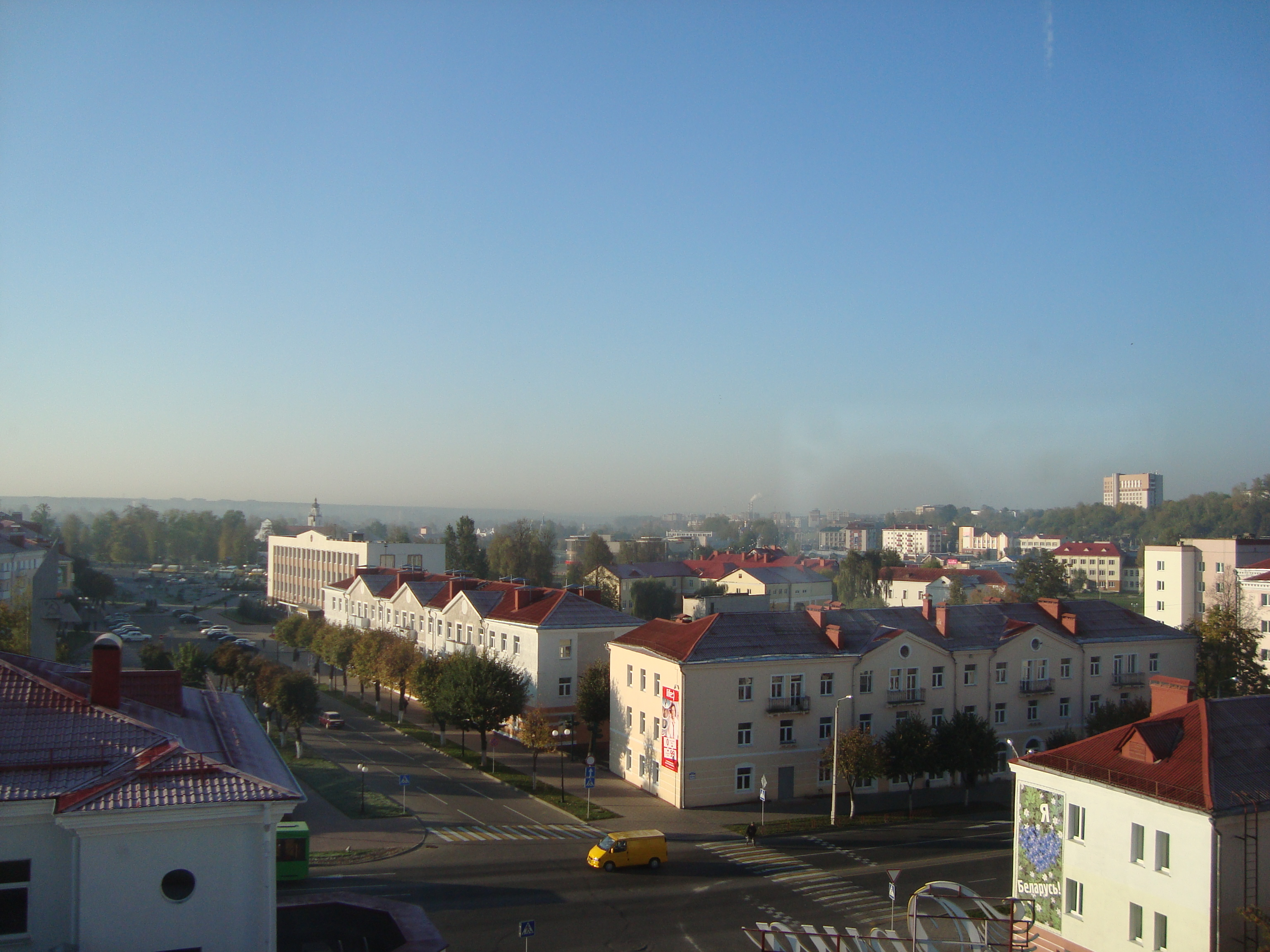 Orsha, 2010